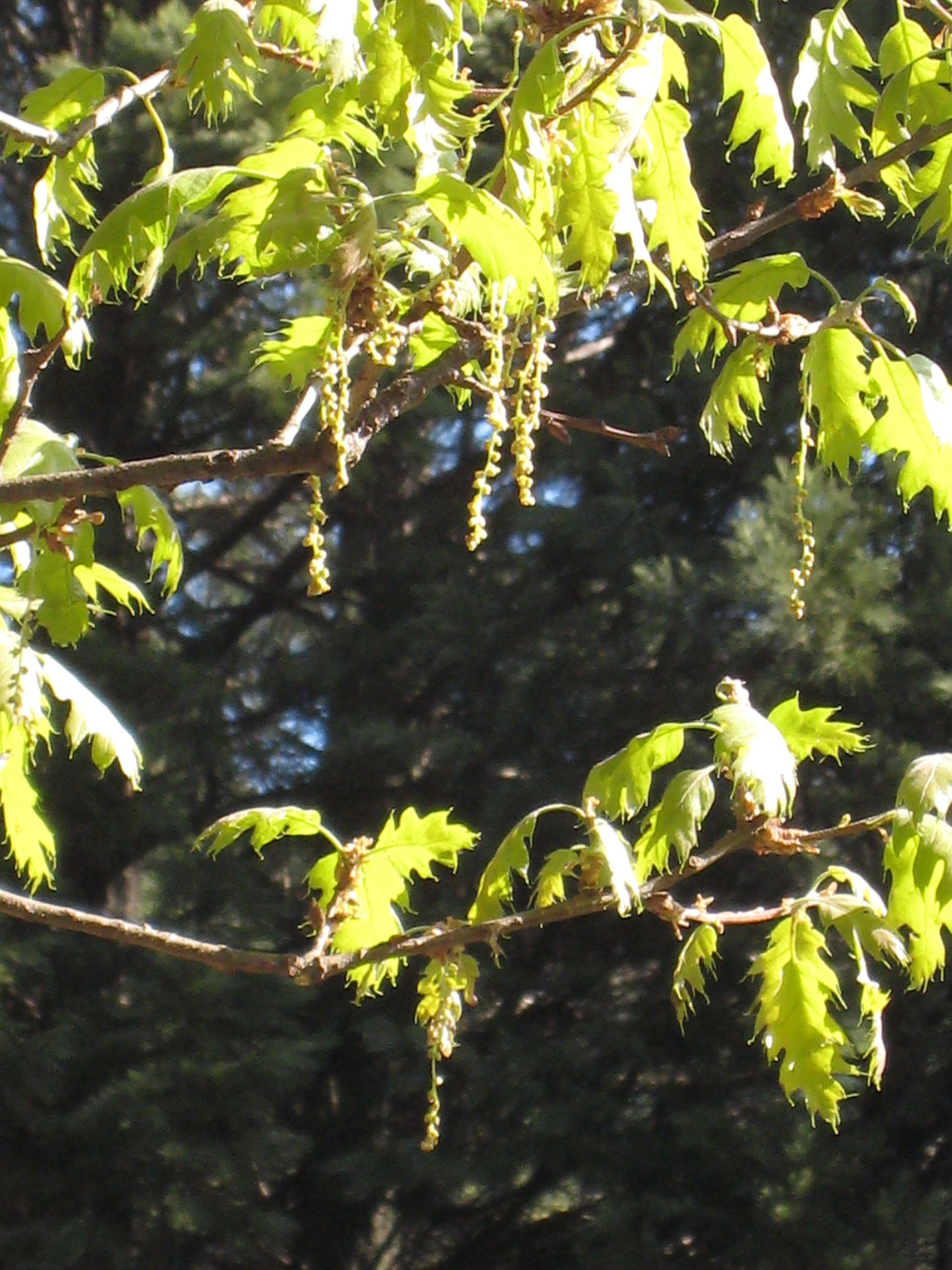 Quercus kelloggii (California Black Oak)